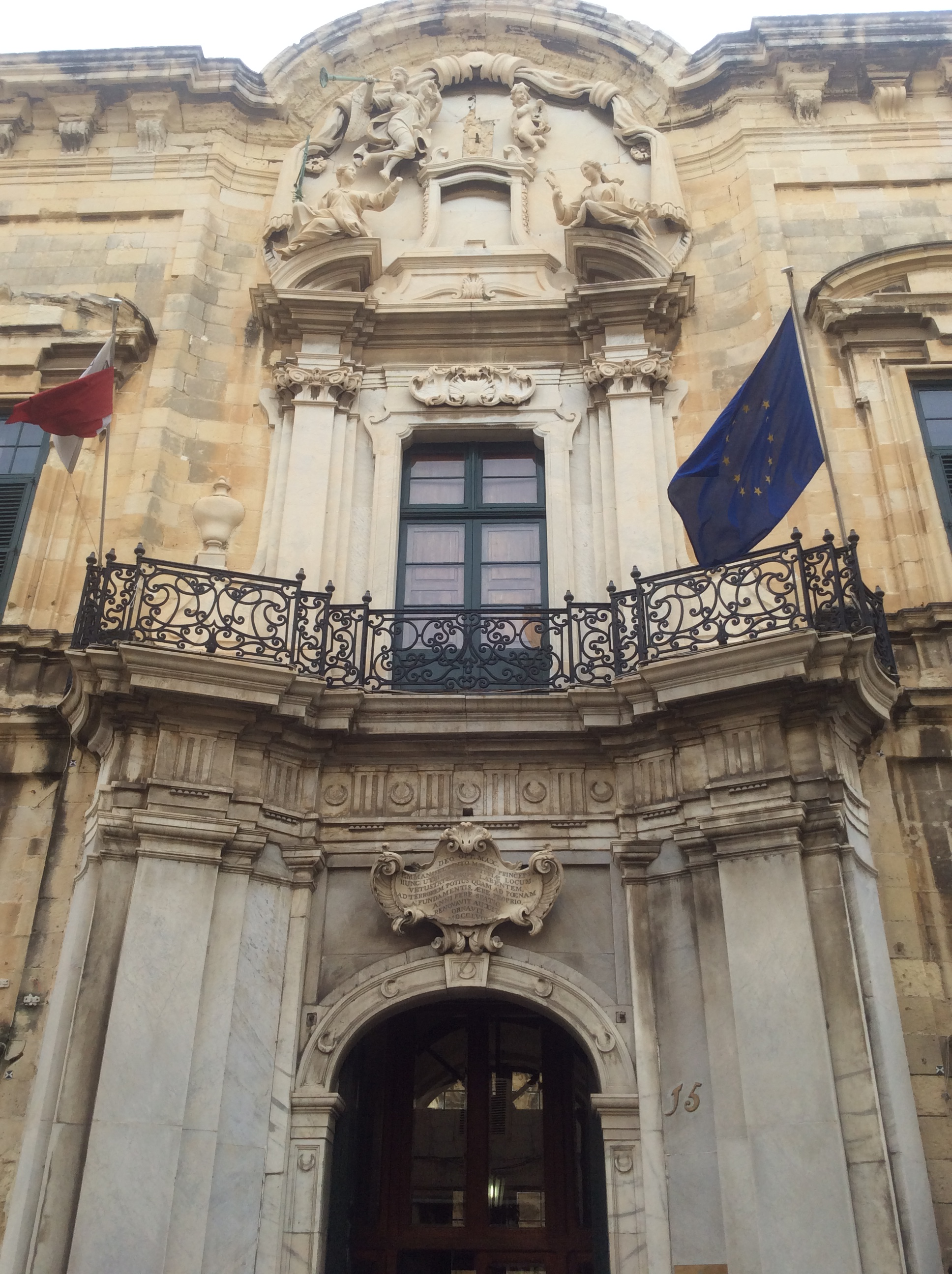 Ornate centrepiece of the façade of the Castellania in Valletta, Malta